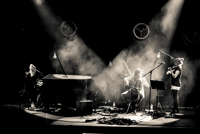 AGNES OBEL, WÜRZBURG, HAFENSOMMER, 2014 by Gerald LANGER.